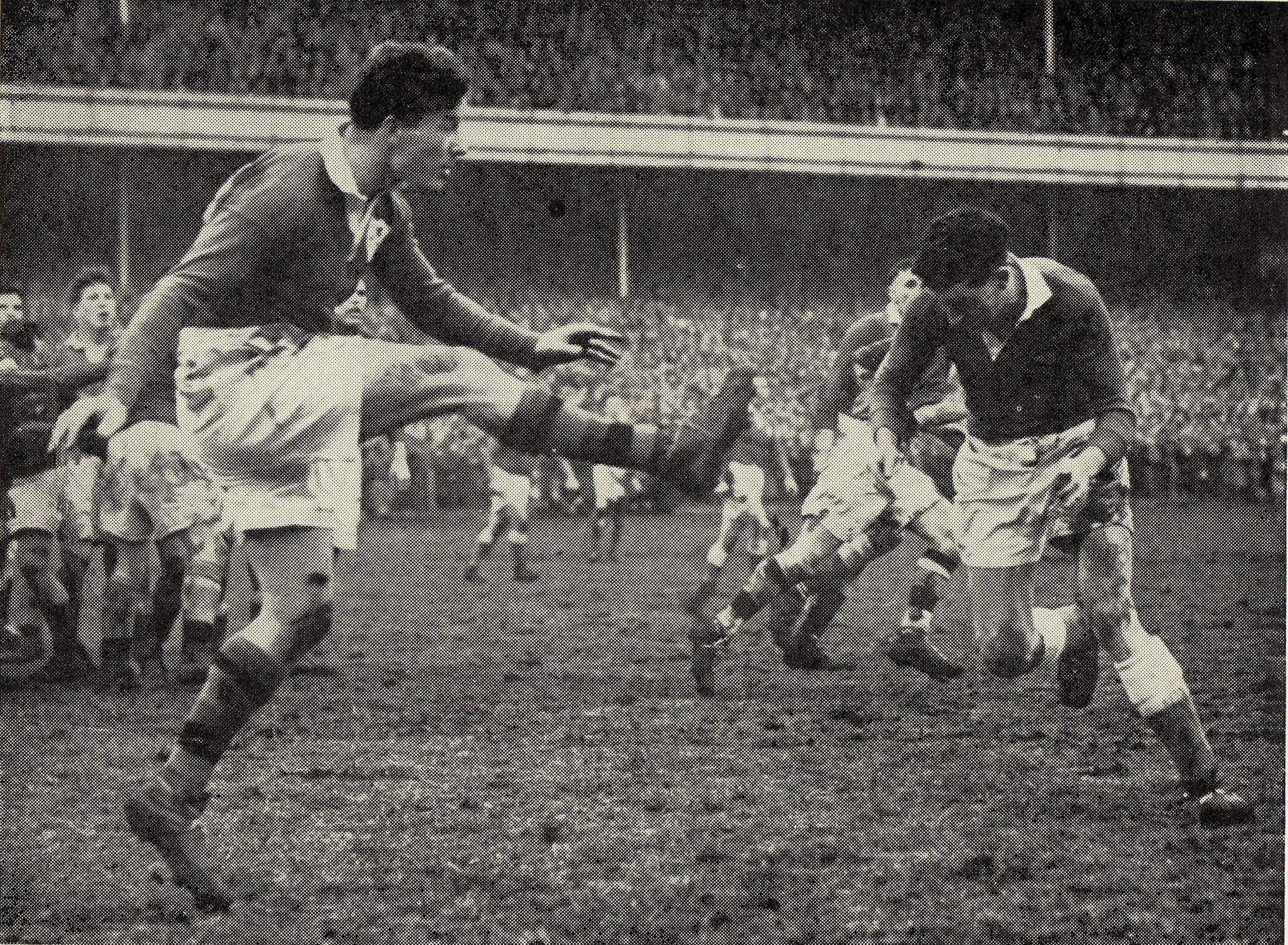 J.W. Kyle (Ireland) kicking for touch against Wales at Cardiff in March 1951, as R. John, of Wales, comes into tackle